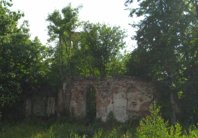 Gothic-renaissance evangelical church ruins in Mierniuszki, Poland.